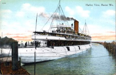 The S.S. Christopher Columbus was a whaleback excursion liner designed by Alexander McDougall and built in 1892-1893 in Superior, Wisconsin by American Steel Barge Company for service to ferry passengers to and from the World's Columbian Exposition, and later placed in general and excursion service to various ports around the Great Lakes. This image is a tinted postcard of her visit to Racine, Wisconsin probably about 1896 when she was in general excursion service.